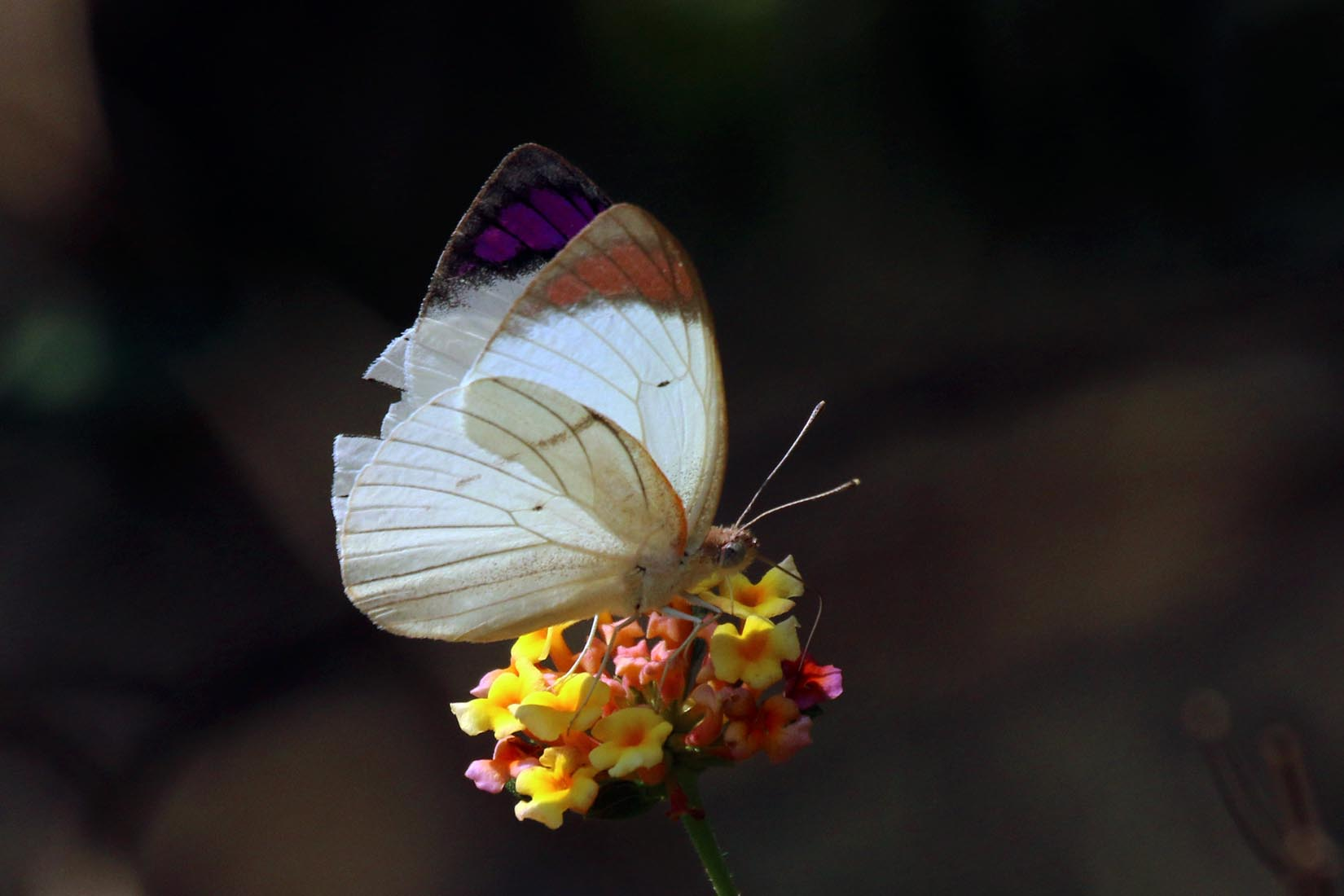 Queen purple tip butterfly (Colotis regina), underside, uMkhuze Game Reserve, KwaZulu Natal, South Africa